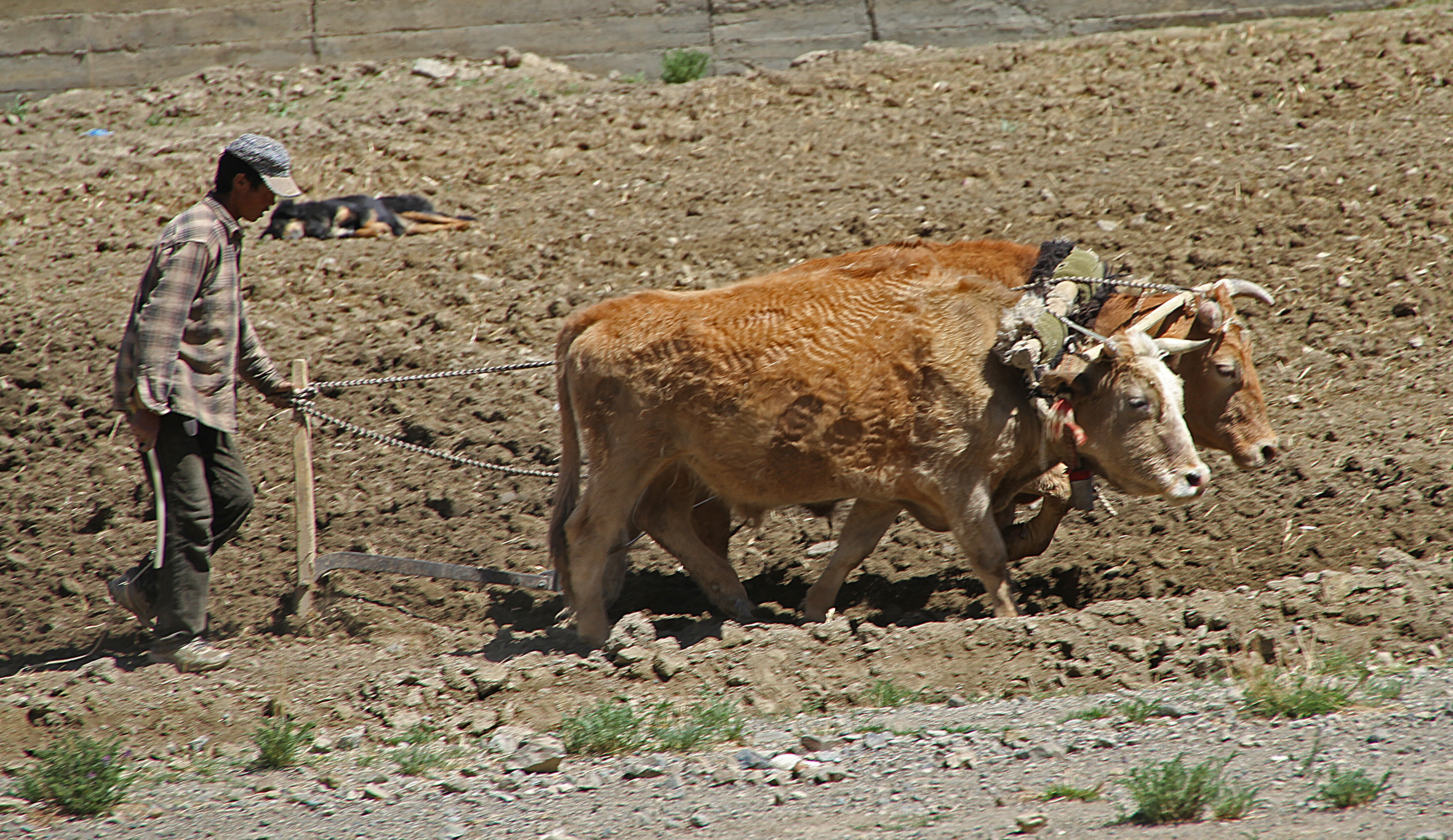 Agriculture in Xigazê prefecture in Tibet